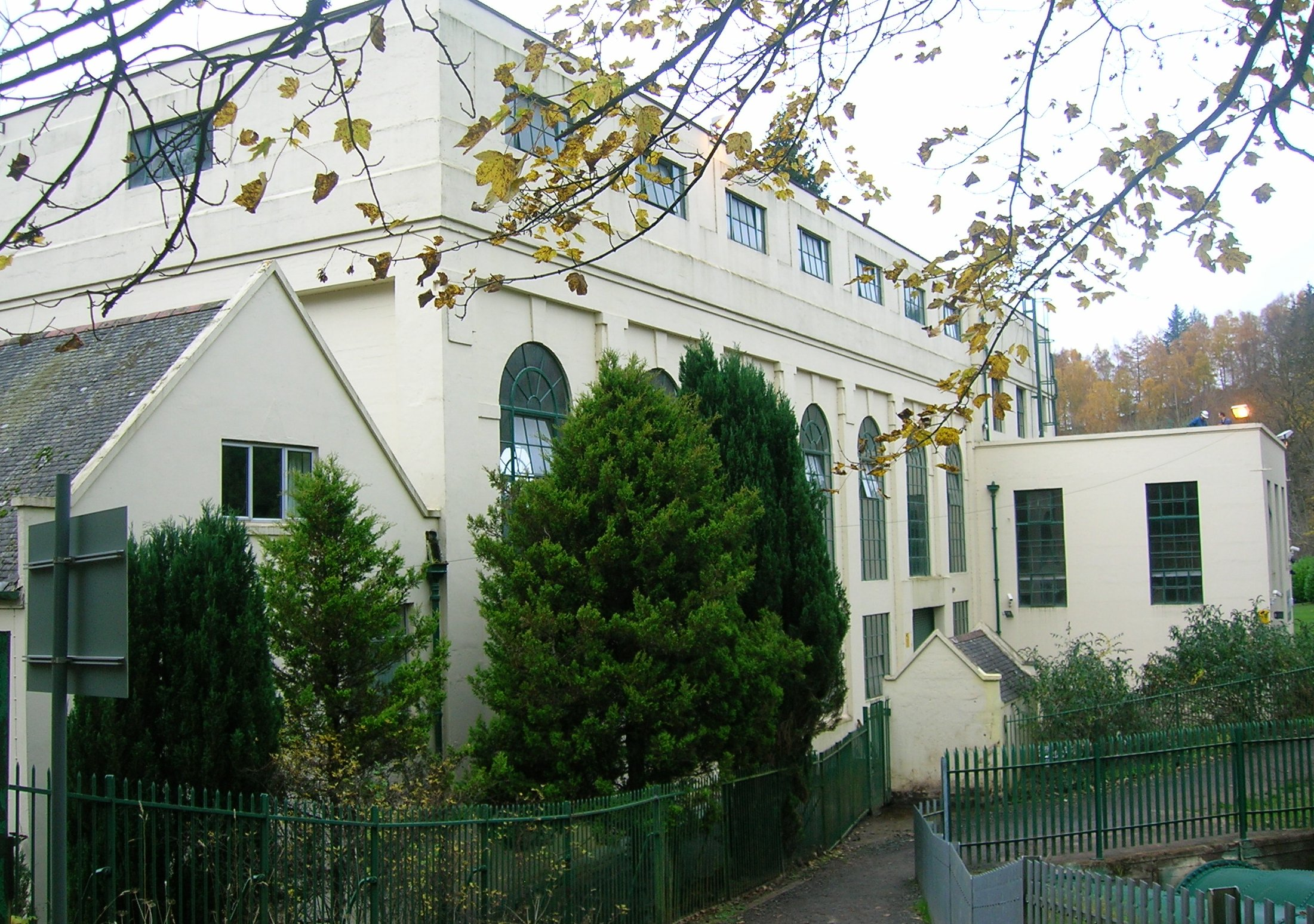 Bonnington hyrdoelectric power station on the river Clyde, Scotland.